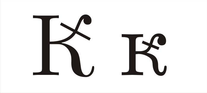 Presentation of the cyrillic letter "Aleut Ka"